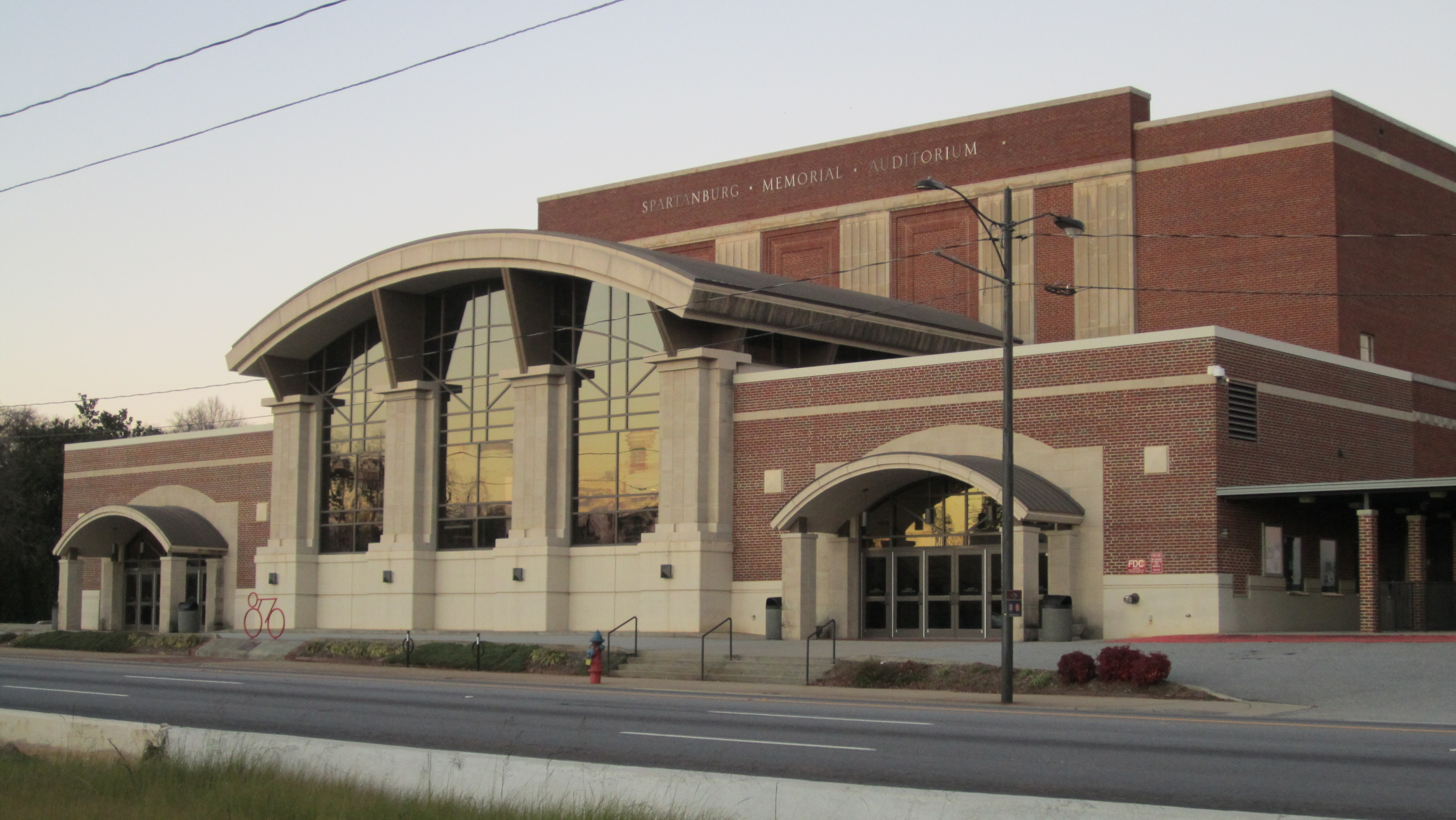 The Spartanburg Memorial Auditorium at sunset.